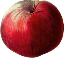 The Wagoner apple